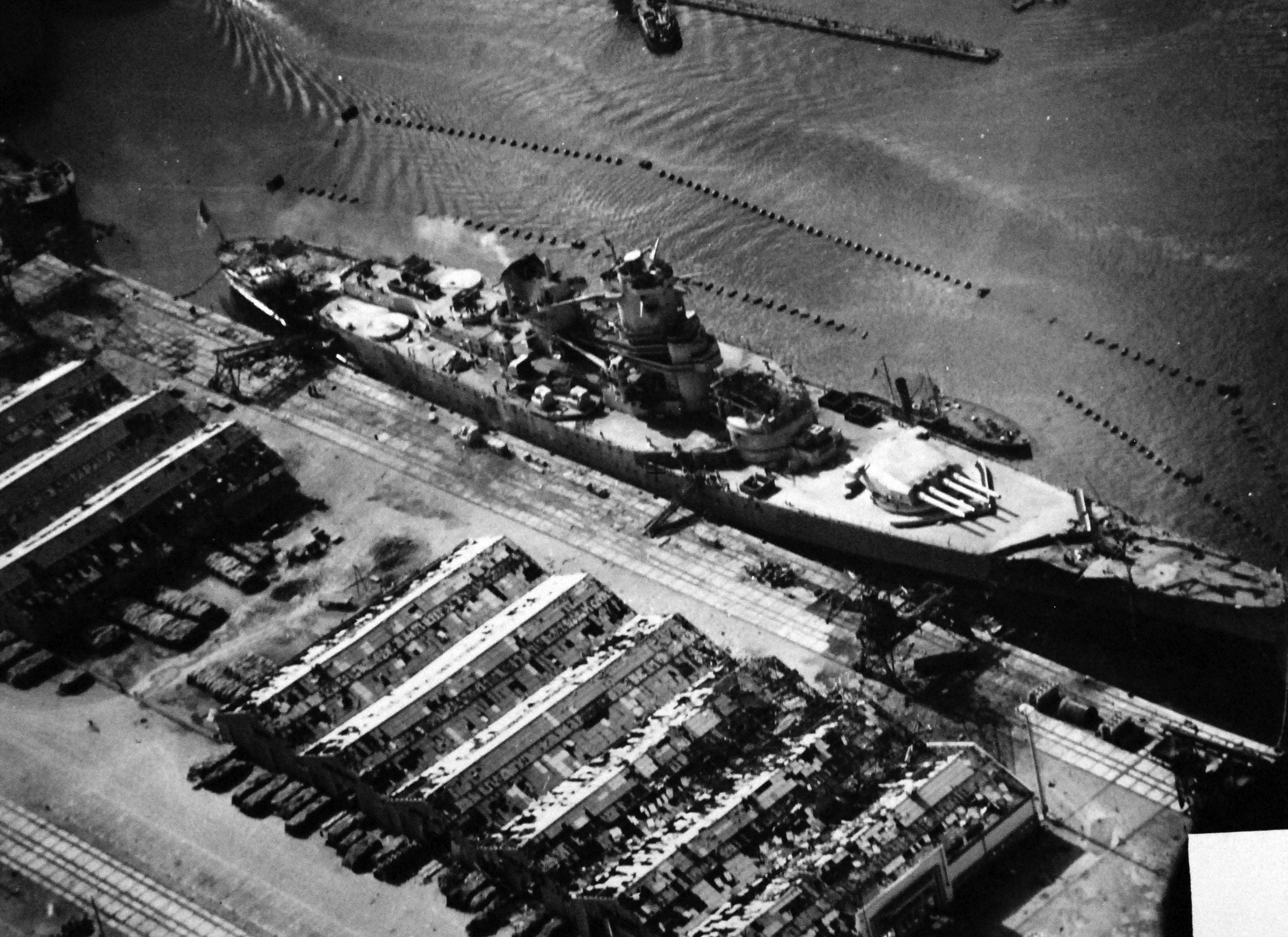 The French battleship Jean Bart, photogaphed from an airplane of the USS Ranger